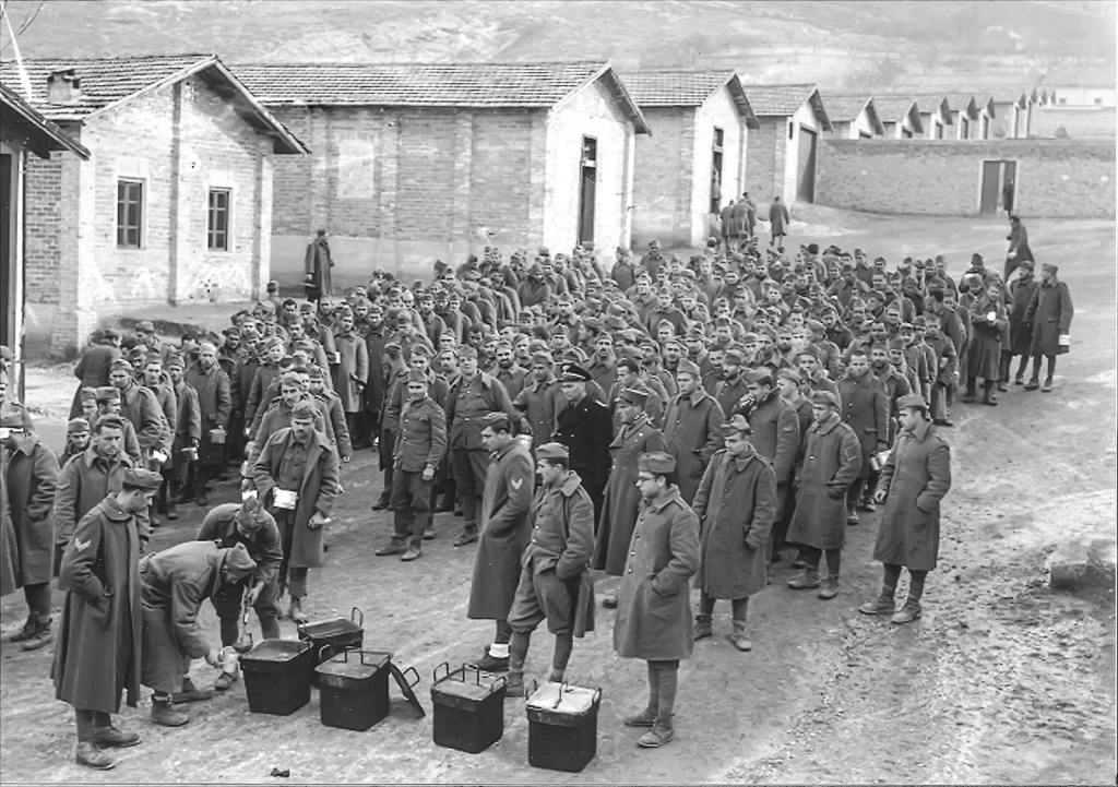 The 78 Camp of Sulmona in Abruzzo, Italy